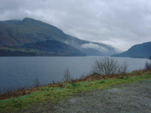 Thirlmere. A natural lake that has been enlarged with a dam at its northern outlet. An important water supply for North west England